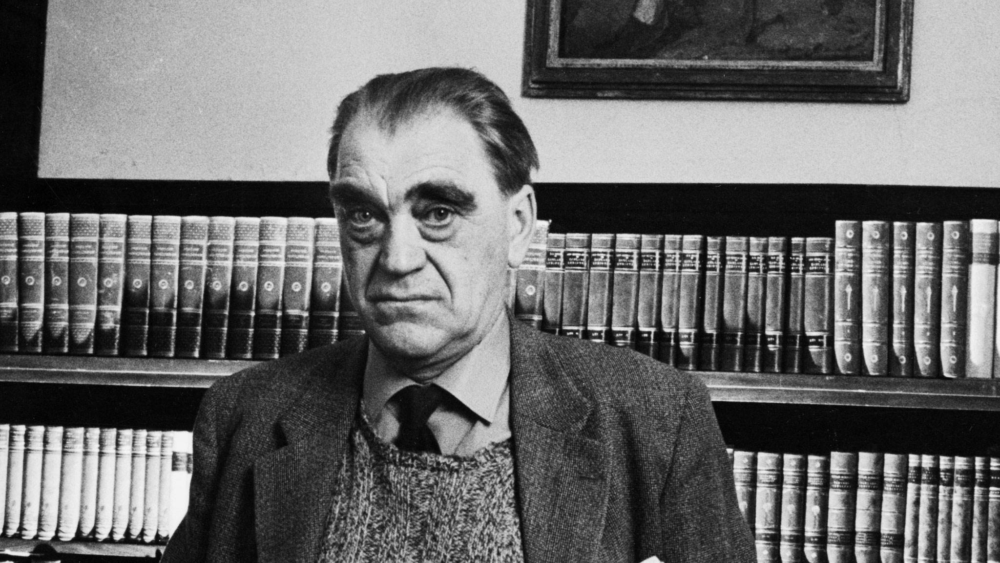 Vilhelm Moberg in 1958